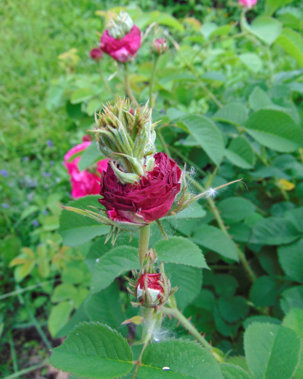 Jardin Botanique de Montréal, Rosa 'Prolifera de Redouté'